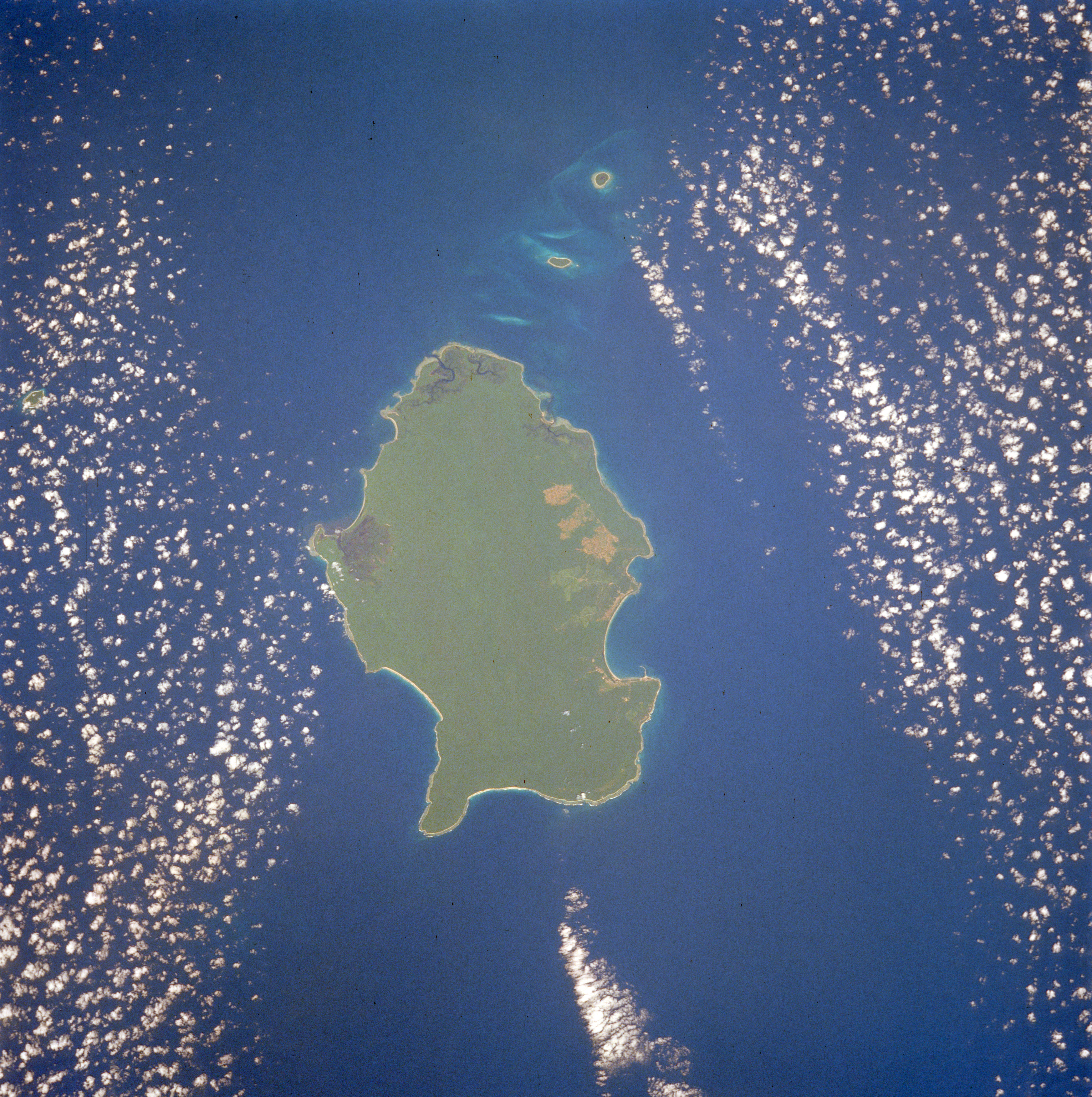 Little Andaman Island, Andaman Islands. Photo taken from 1990 Space Shuttle mission (STS032). Img rotated. Shows island in-between banks of high clouds, with Duncan Passage and the islets of "the Brothers" above.